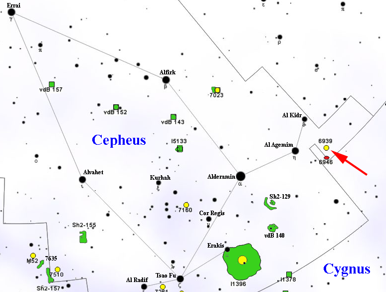 Map of NGC 6939